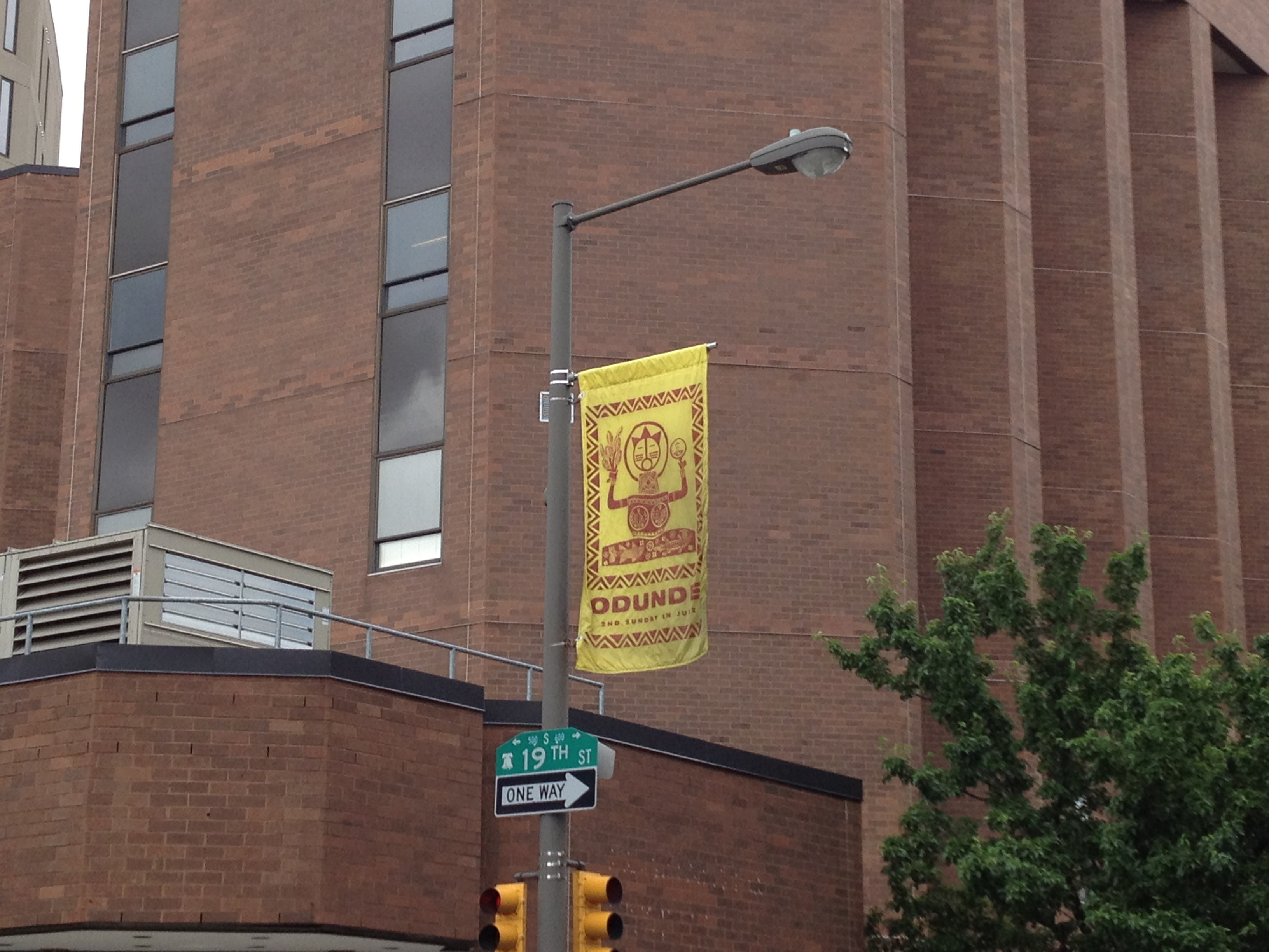 Odunde Festival celebrations in SW Center City Philly